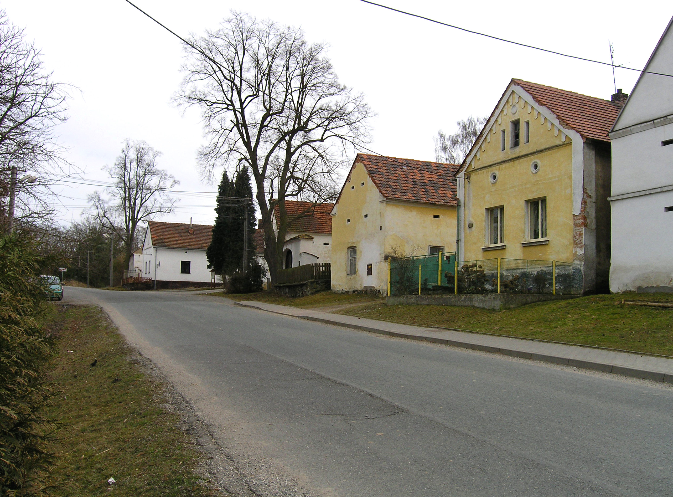 Žichlice, part of Hromnice village, Czech Republic